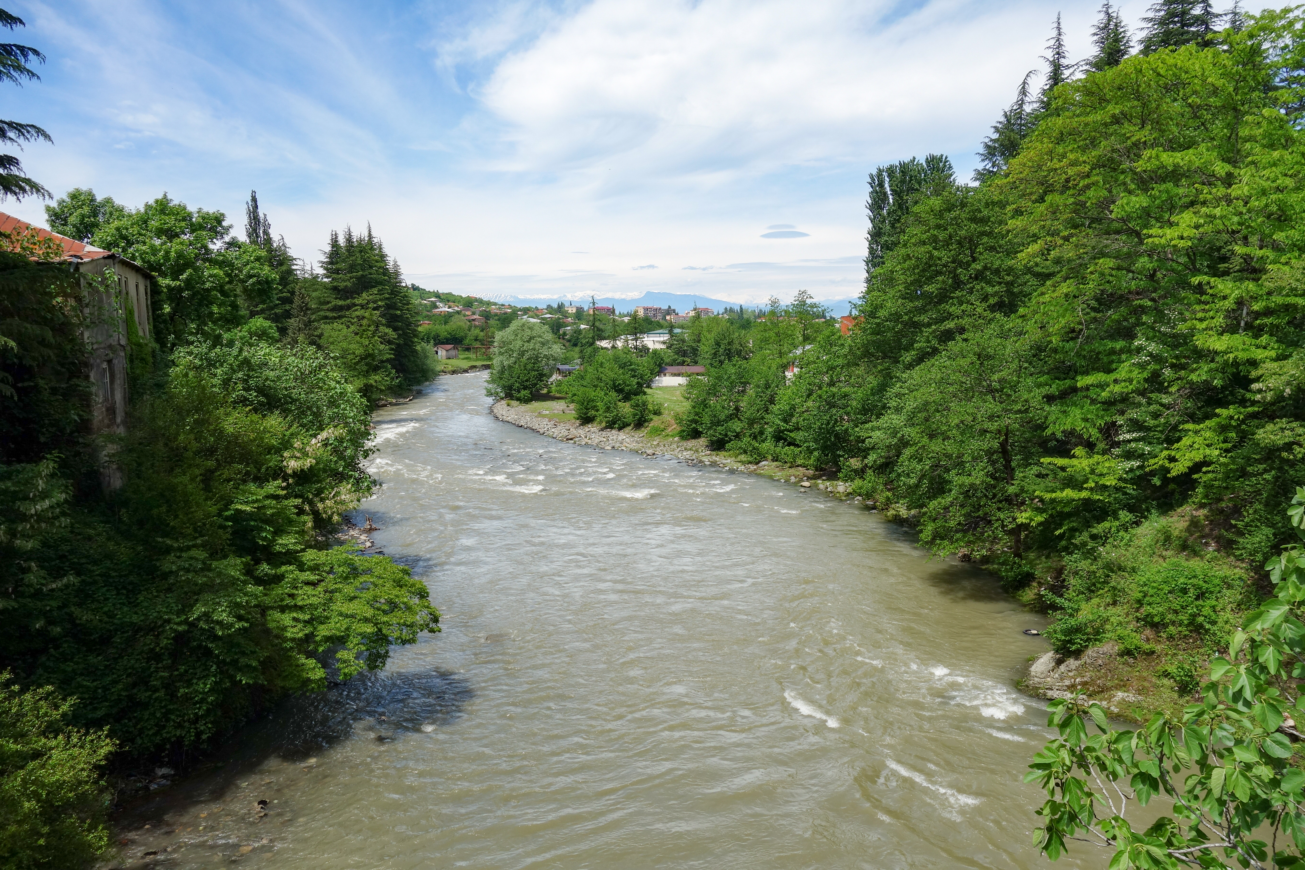 Khanistskali River in Baghdati, Imereti, Georgia